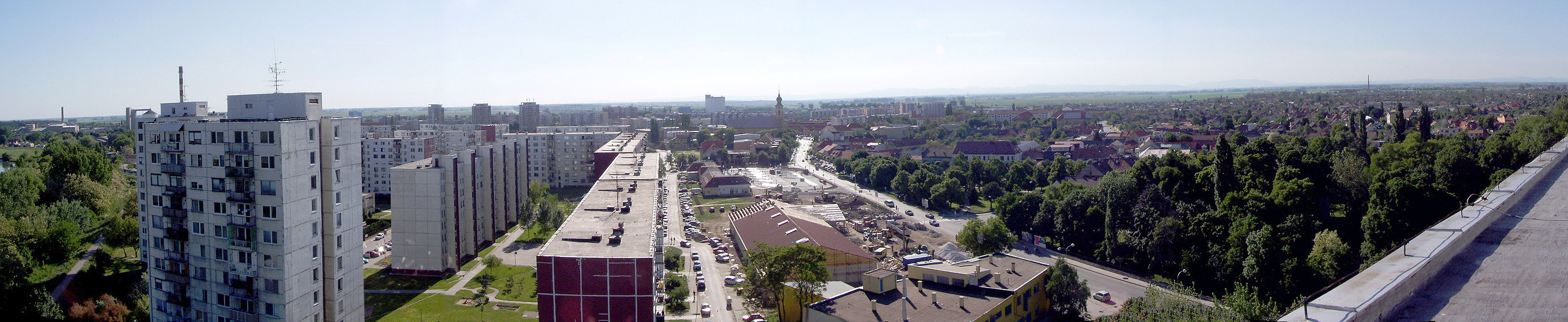 panorama of Sereď